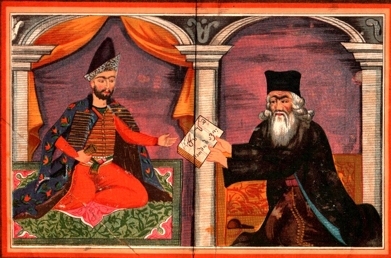 A 18th century miniature showing Vakhtang VI of Kartli and Sulkhan-Saba Orbeliani